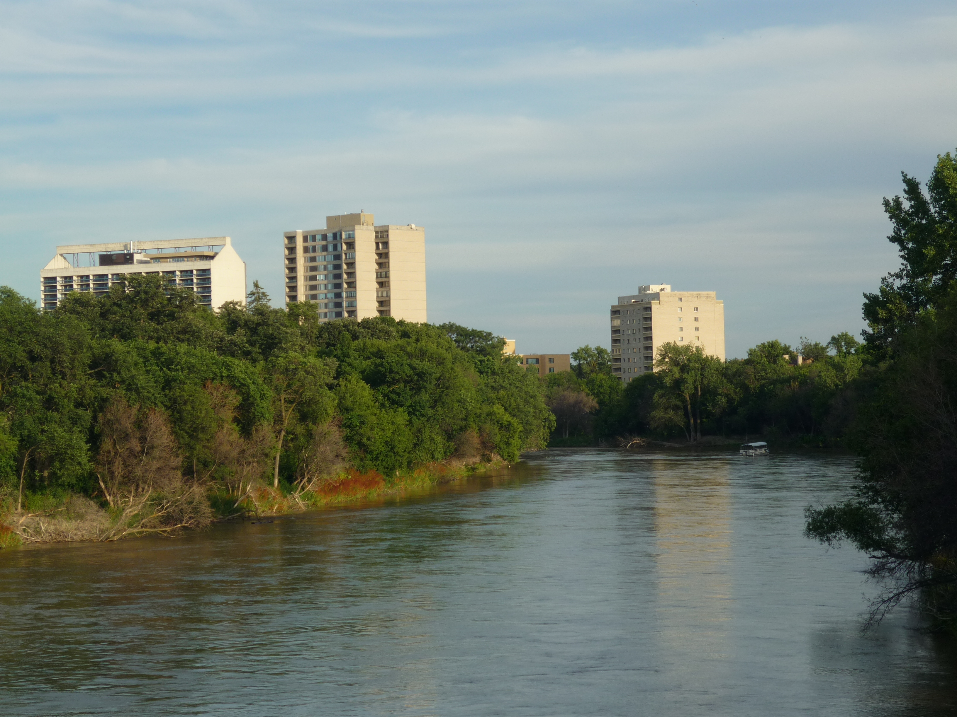 This is an image of the Maryland Bridge looking east Other information Please credit as @qwekiop147